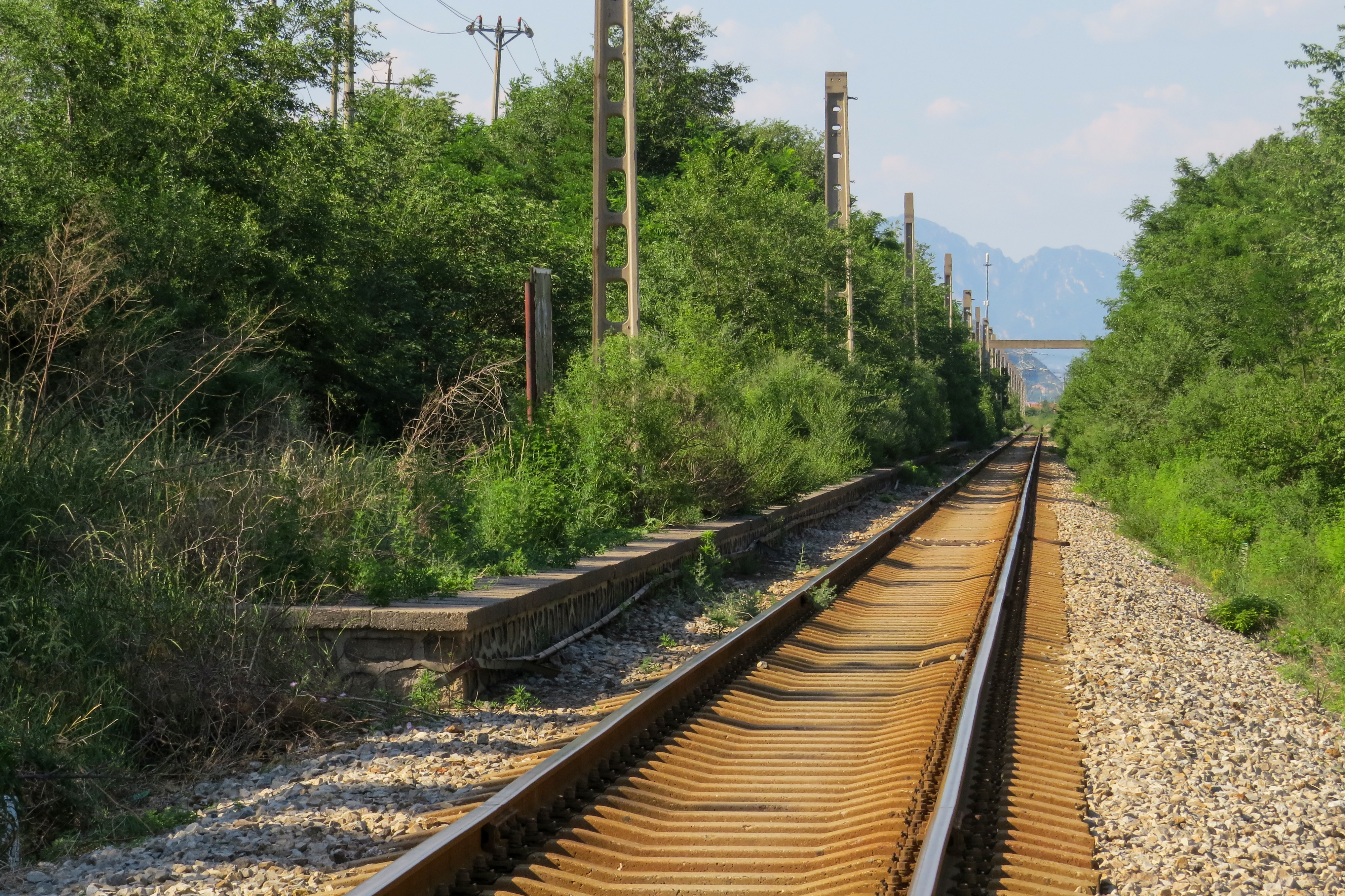 Finally got it near the field training base.